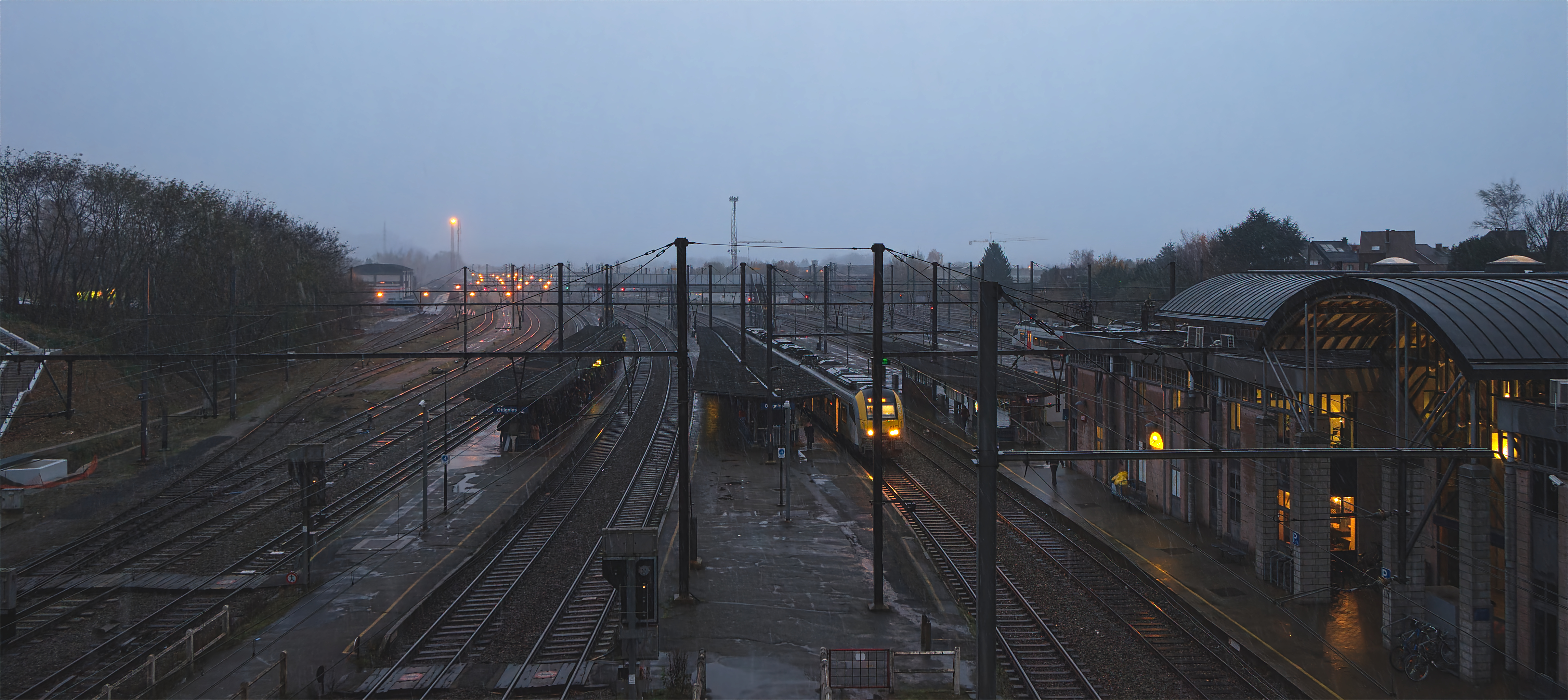 Ottignies train station on a frosty day, looking down at the platforms from the South side